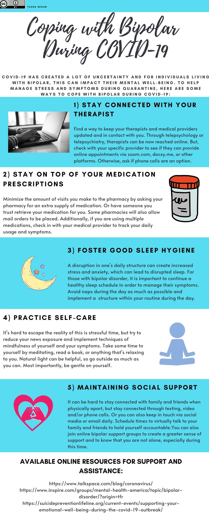 This infographic summarizes five ways of coping with COVID-19 and similar stressors, with a focus on people living with bipolar disorder and other complex medical conditions